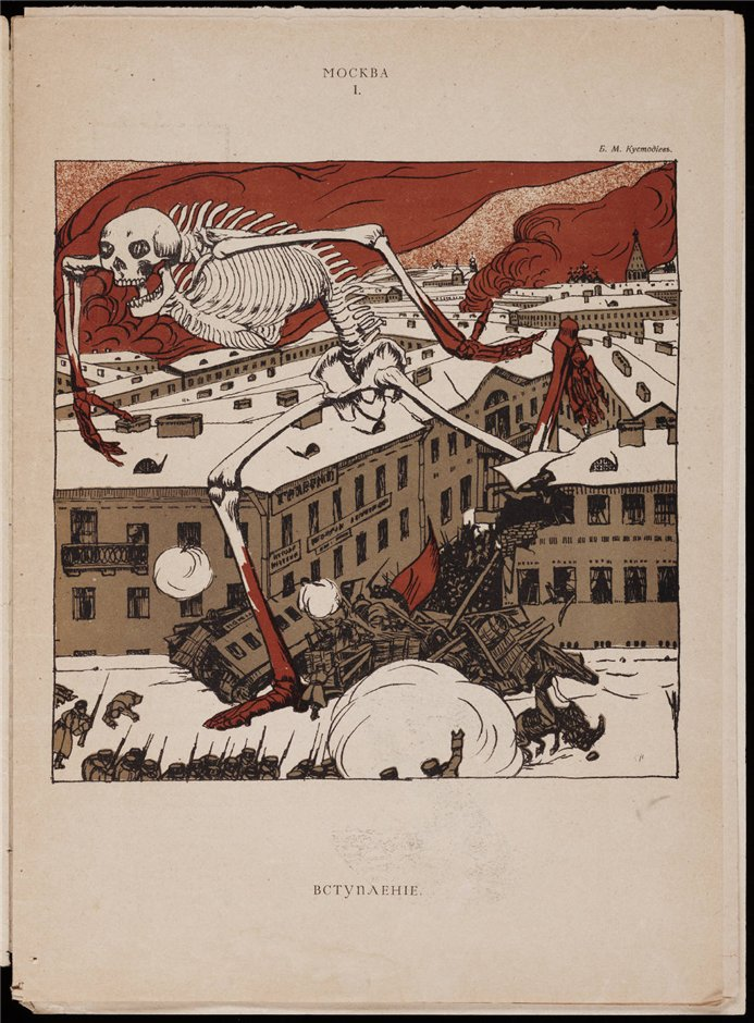 Bugaboo of Revolution. Drawing by Boris Kustodiev, 1905